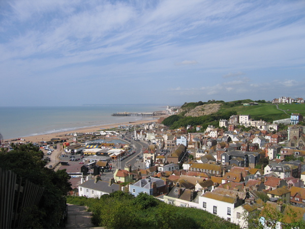 Hastings Old Town overview photographed from the East Hill in 2007.